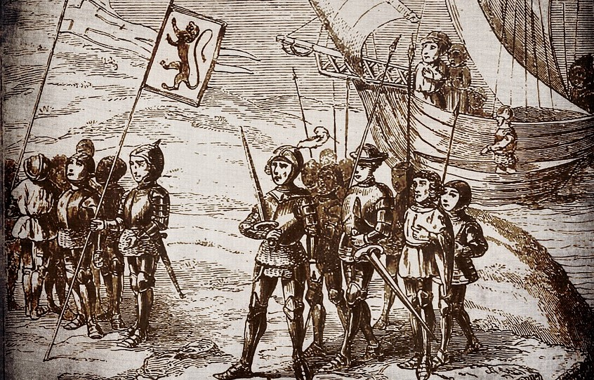 Spanish Inca pizarro